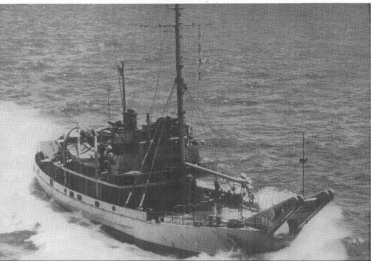 Waxsaw (AN-91), date and place unknown. US Navy photo